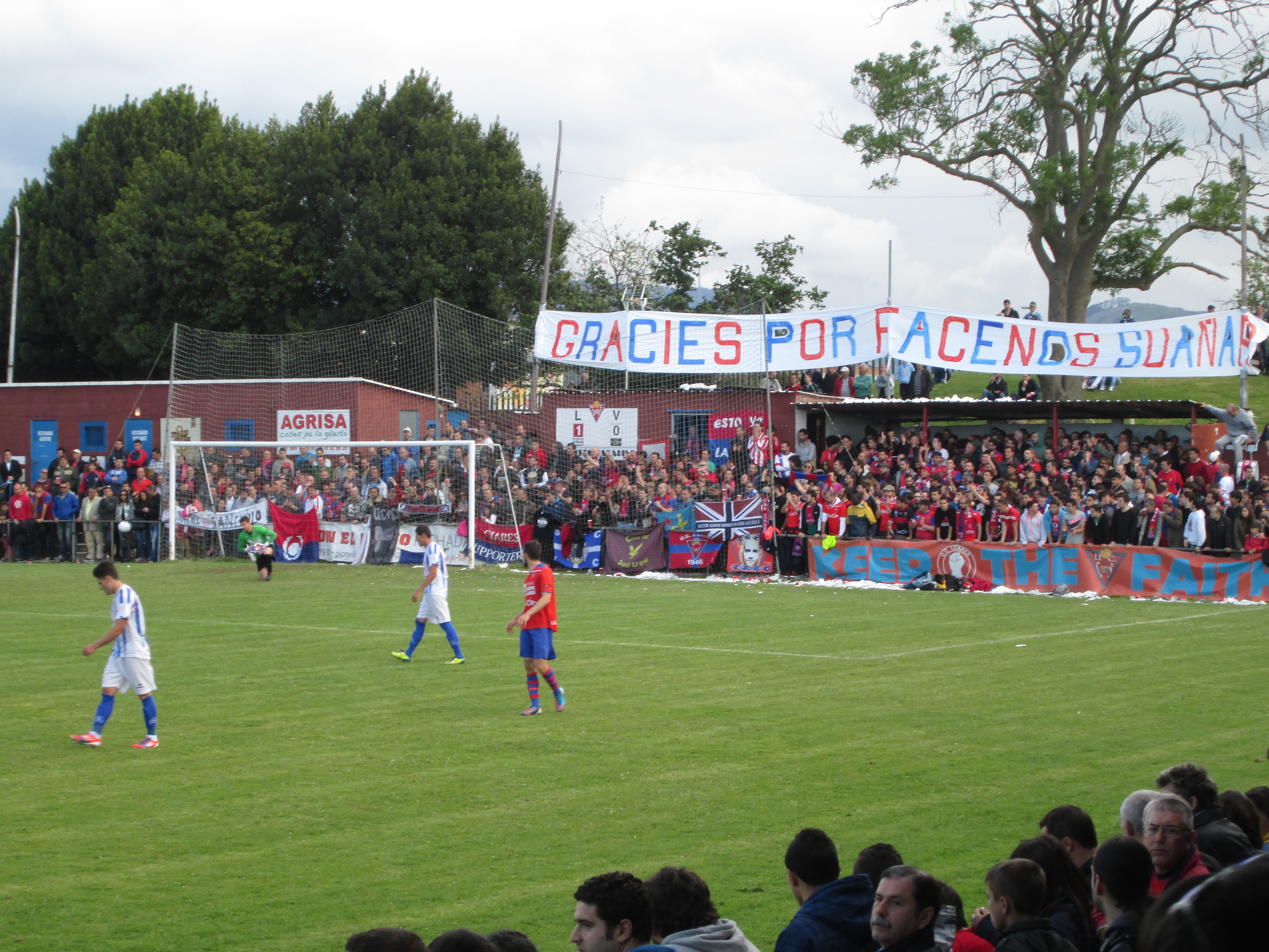 A moment of the game of Spanish Tercera División playoffs game between UC Ceares (Gijón) and Águilas CF (Águilas, Murcia).